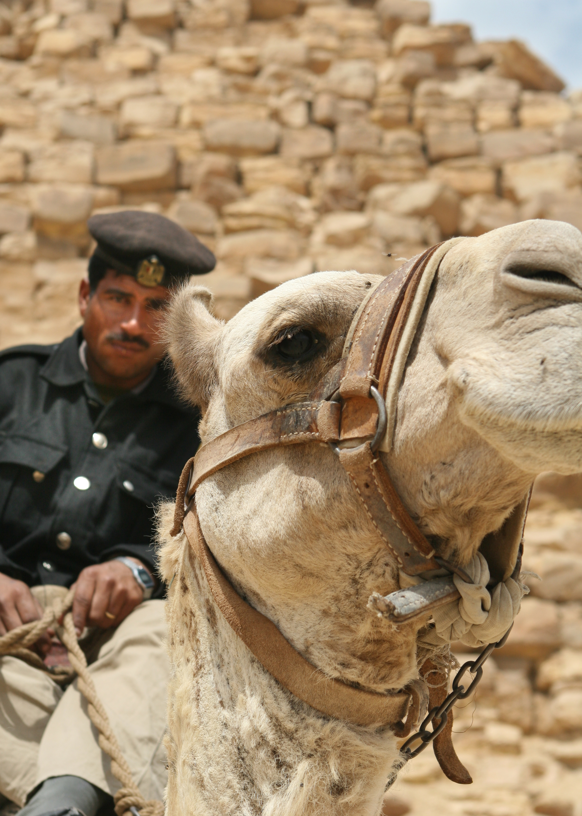 This tourist policeman patrols the Bent Pyramid in Cairo. He followed us around the back of the pyramid and was happy to get tipped for posing. Once again, organized a great trip for us.